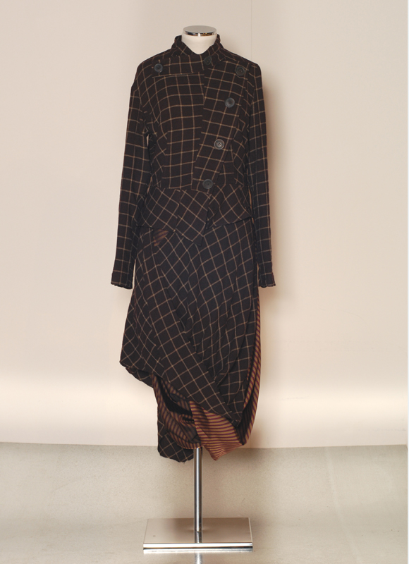 "Anglomania" dress by Vivienne Westwood